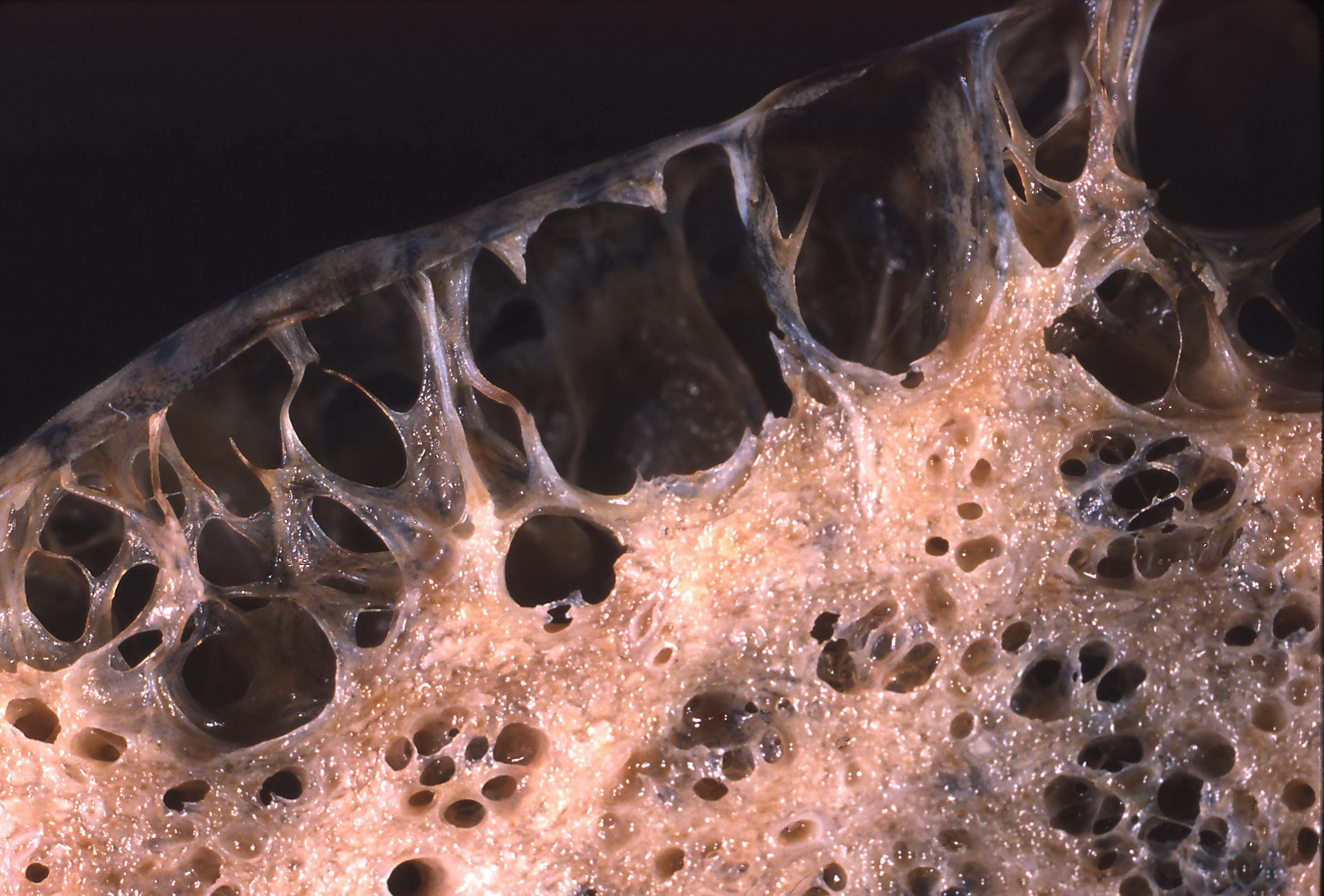 Large, prominent subpleural bullae. Spontaneous pneumothorax often results from rupture of such lesions.